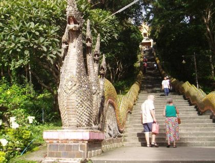 Entrance stairs to Wat Prah that Doi Suthep, Chiang Mai.